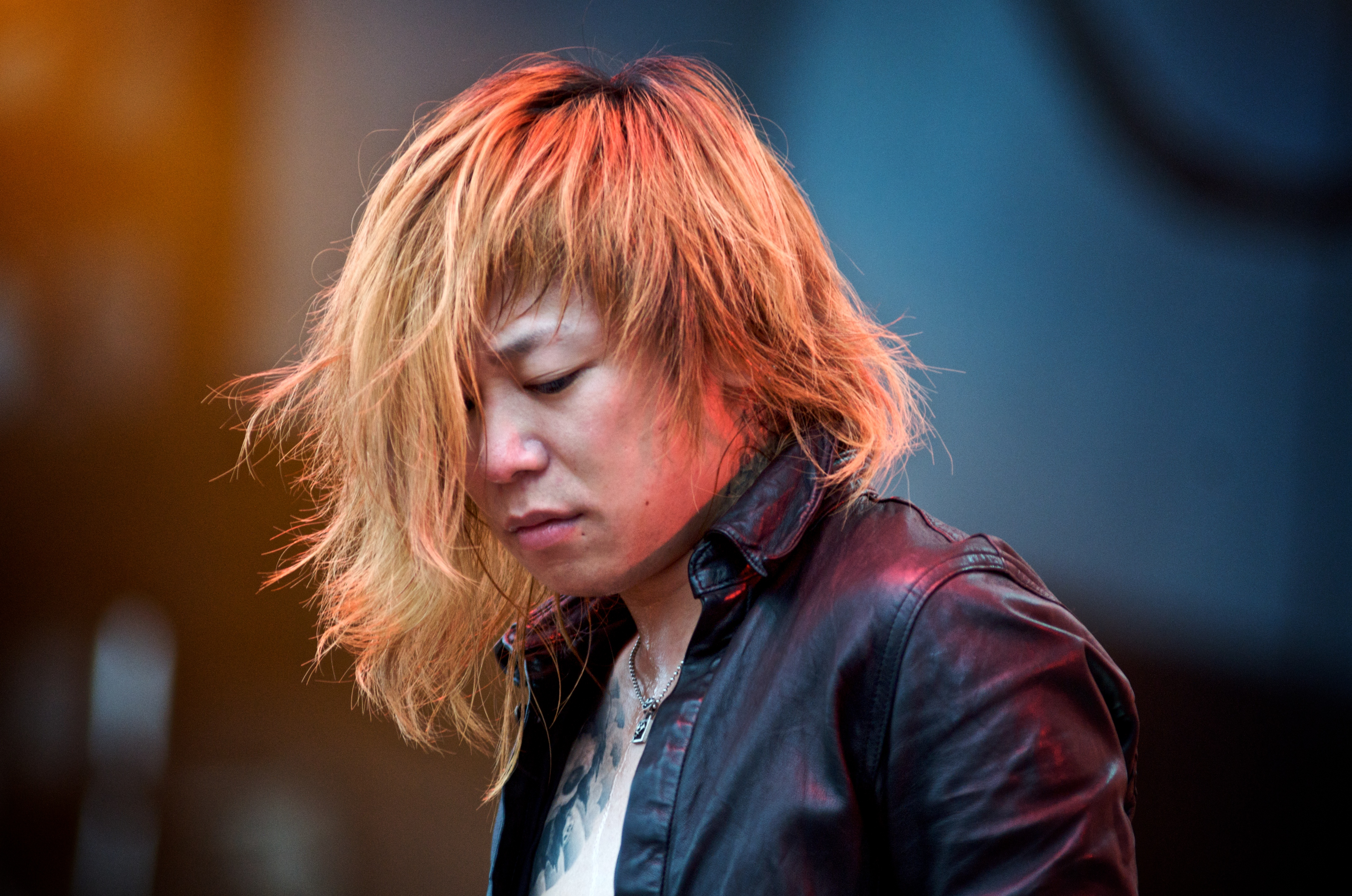 Dir En Grey in Maquinária Festival, occurred in November 8 2009 at São Paulo, Brazil.